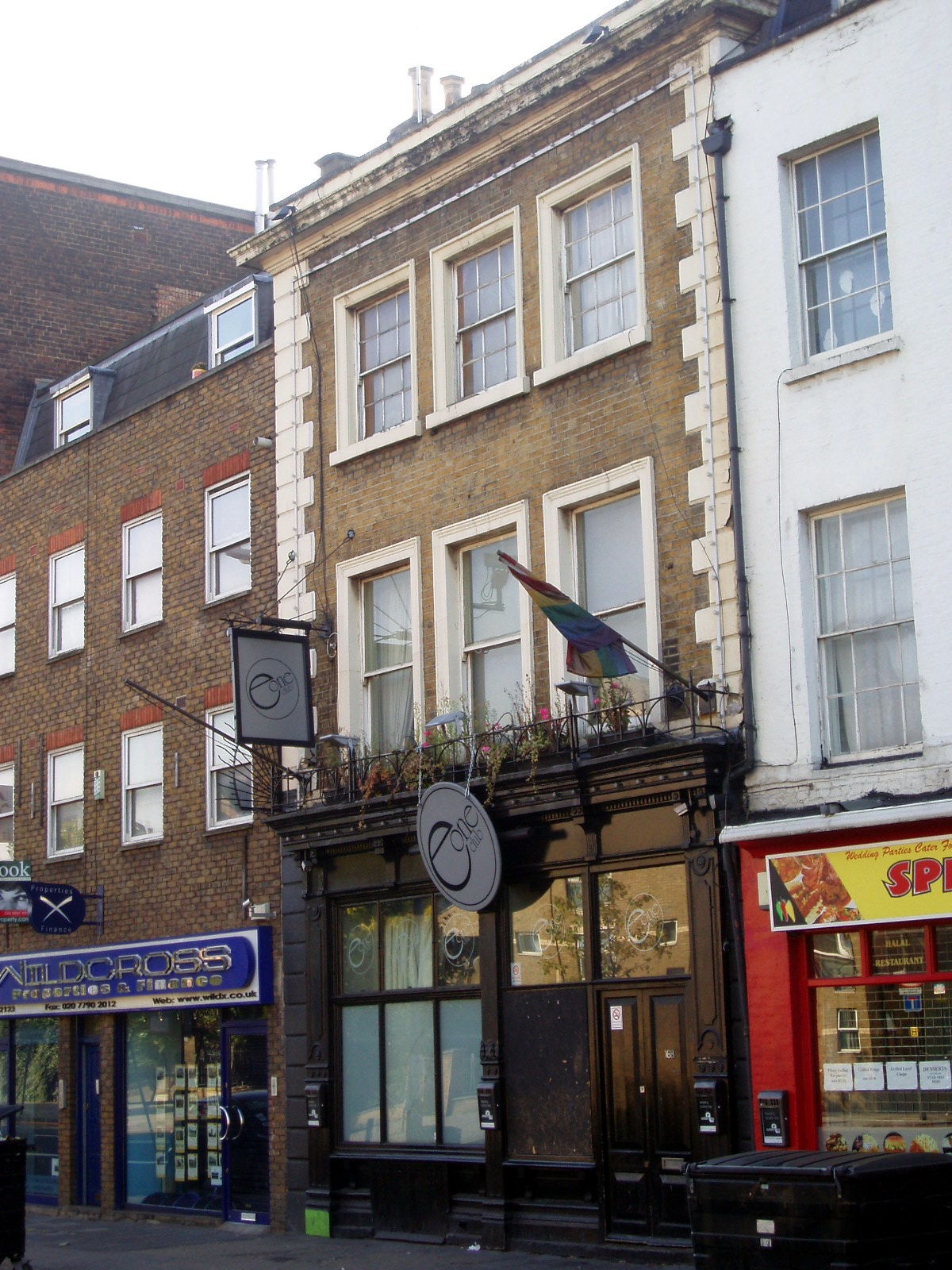 Formerly a pub, now just a club. Address: 168 Mile End Road (formerly at Hayfield Place). Former Name(s): The Black Horse. Owner: Bass (former). Links: London Pubology